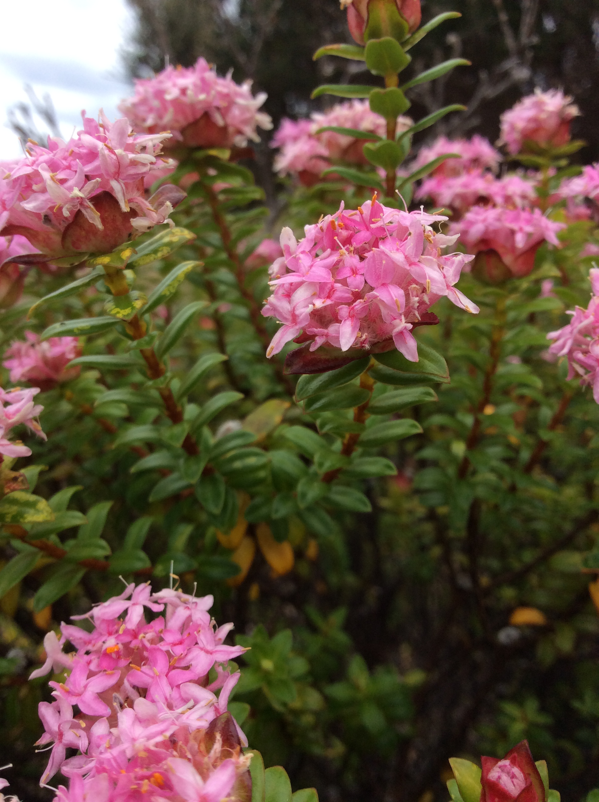 Pimelea ferruginea, Yallingup, Western Australia